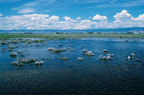 A freshwater wetland